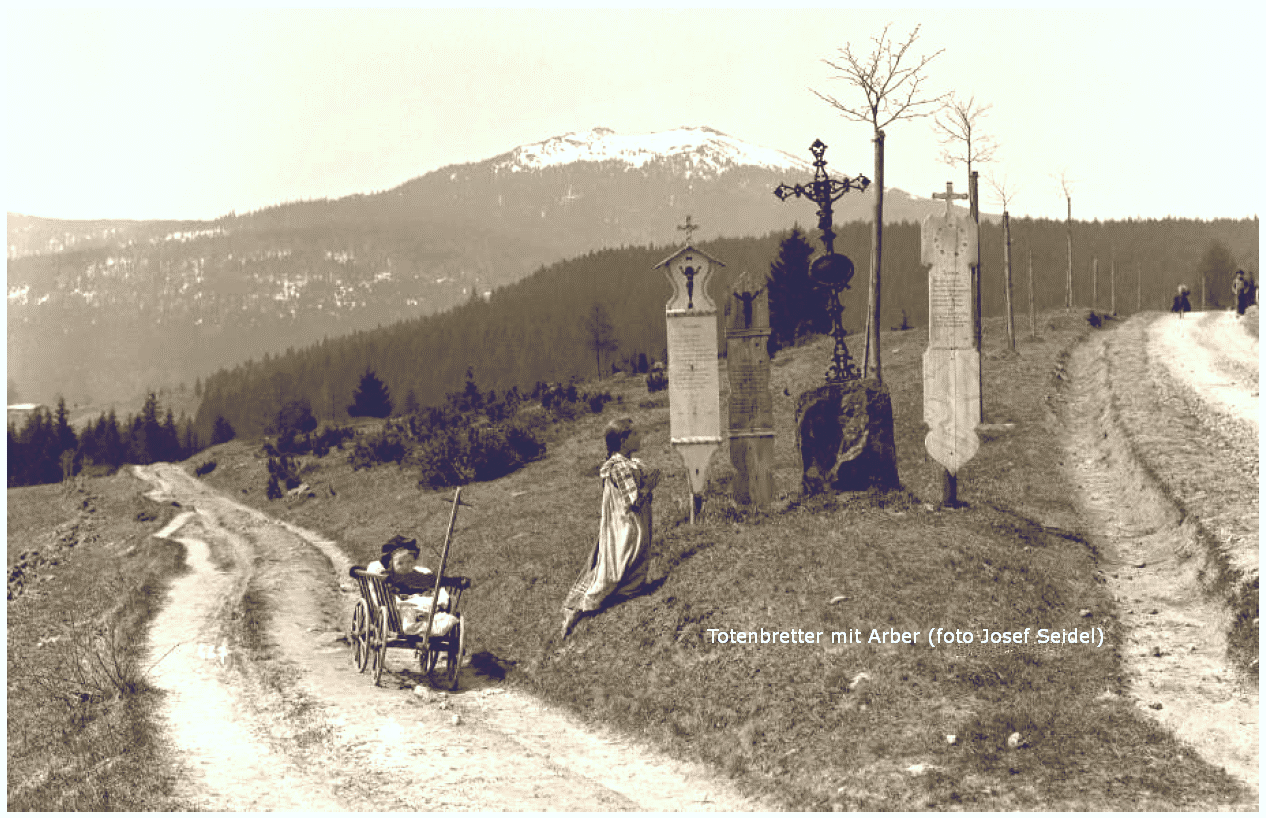 Postcard: Prayer near the Boards for the Dead in the Bohemian Forest („Totenbretter mit Arber“), photo dated in range of years 1915 - 1930.